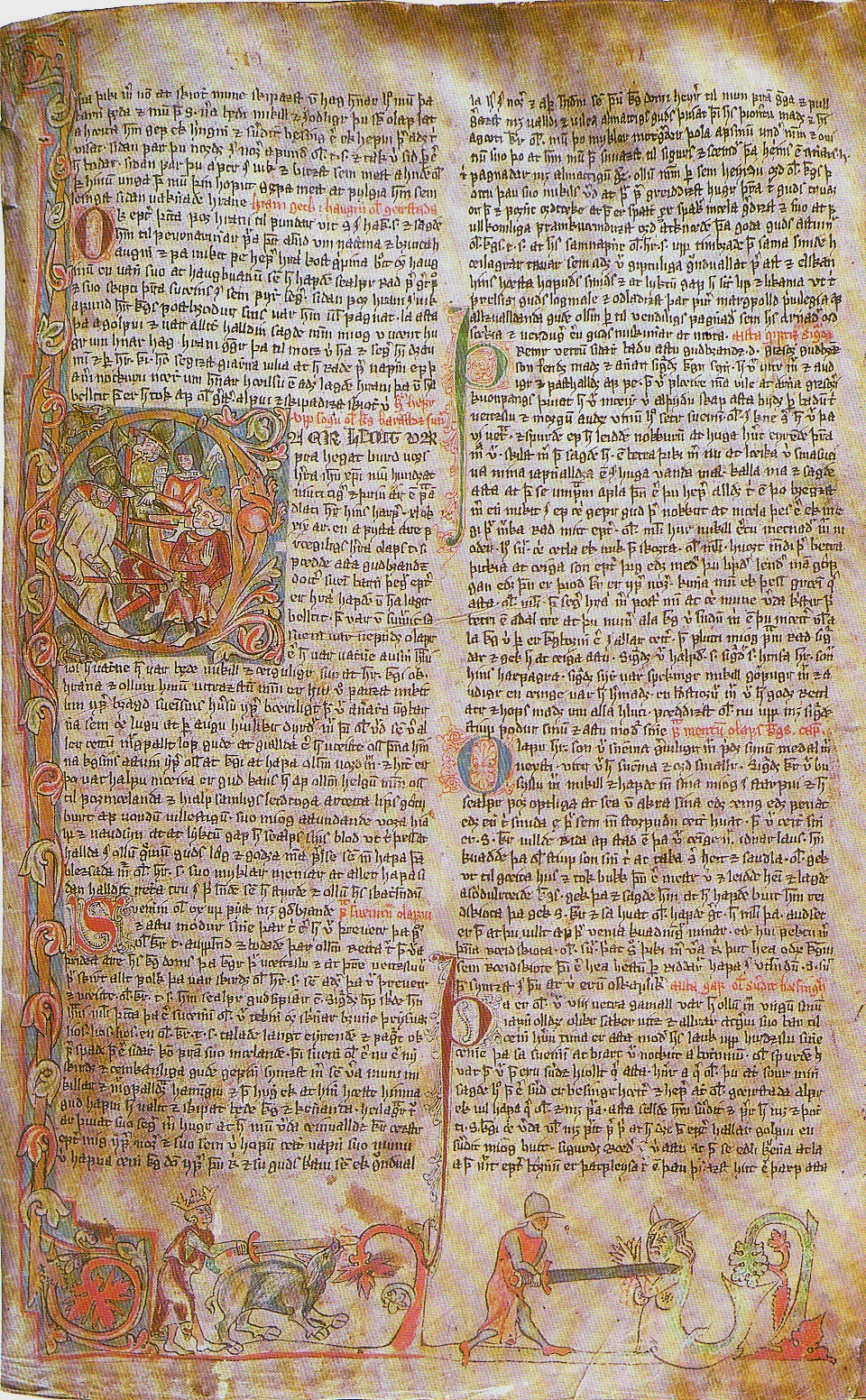 Flateyjarbók: Death of King Olaf II in battle of Stiklestad, miniatures of Olaf Tryggvason XIII-XIV Centuries